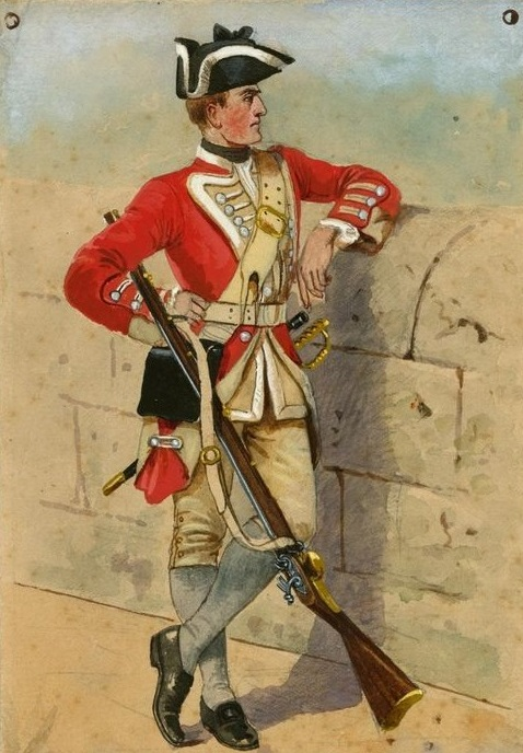 private of the 1st Bengal European Regiment (approx when it was formed in 1756)